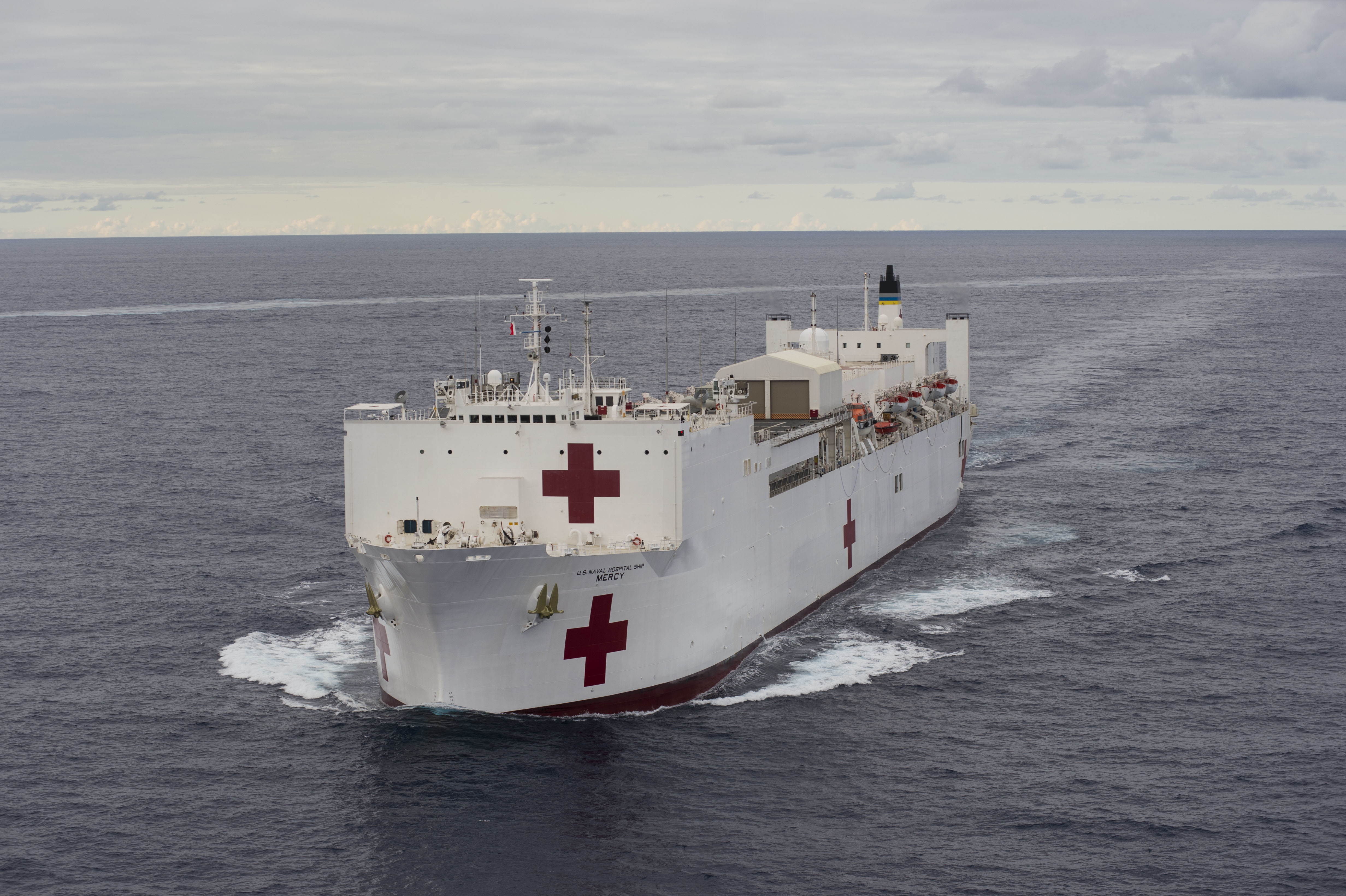 PACIFIC OCEAN -- The Military Sealift Command hospital ship USNS Mercy (T-AH 19) is underway in the Pacific Ocean for Pacific Partnership 2015. Now in its 10th iteration, Pacific Partnership is the largest annual multilateral humanitarian assistance and disaster relief preparedness mission conducted in the Indo-Asia-Pacific region. While training for crisis conditions, Pacific Partnership missions have provided medical care to approximately 270,000 patients and veterinary services to more than 38,000 animals. Additionally, Pacific Partnership has provided critical infrastructure development to host nations through the completion of more than 180 engineering projects. (U.S. Navy photo by Chief Mass Communication Specialist Christopher E. Tucker/RELEASED)